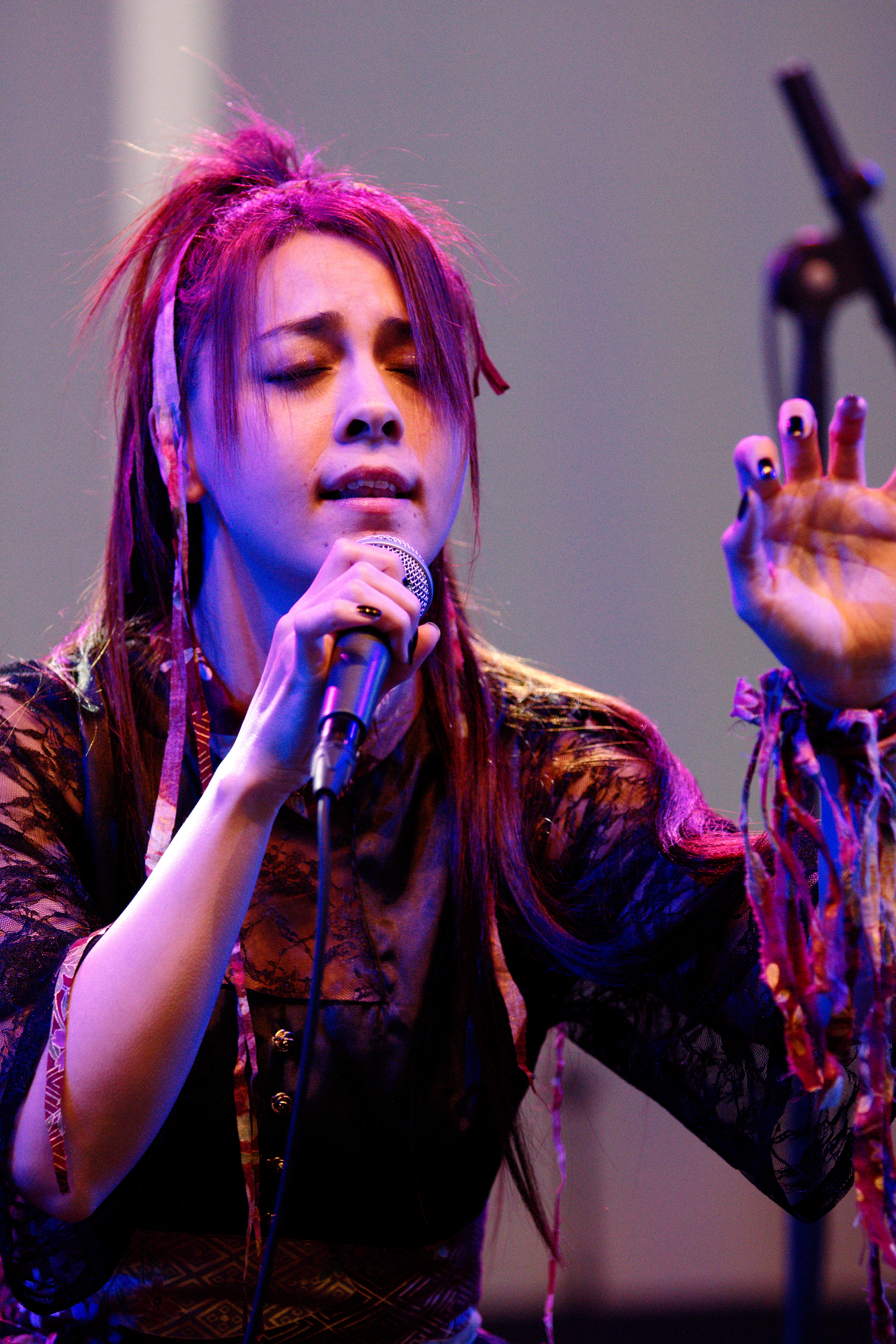 Head Phones President acoustic live at Japan Expo Sud 2011 (Marseille, France).